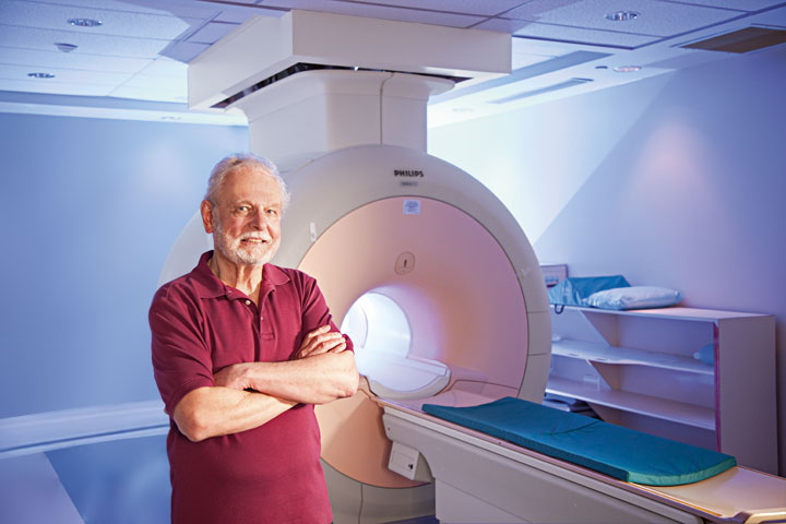 Paciente con marcapasos y máquina de resonancia magnética